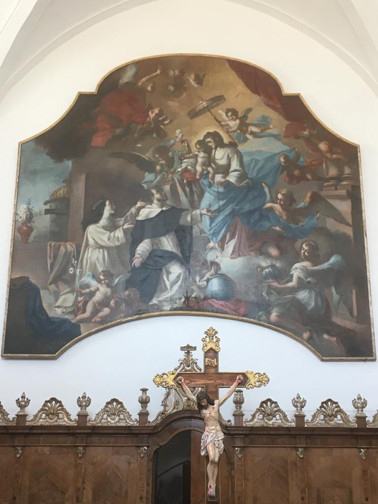 Dipinto di Maria Santissima del Rosario, opera di Domenico Antonio Carella, posto nella sacrestia della chiesa matrice di Francavilla Fontana. In origine si trovava sull'altare maggiore ed è stato spostato nella posizione attuale quando misero al suo posto l'organo a canne.